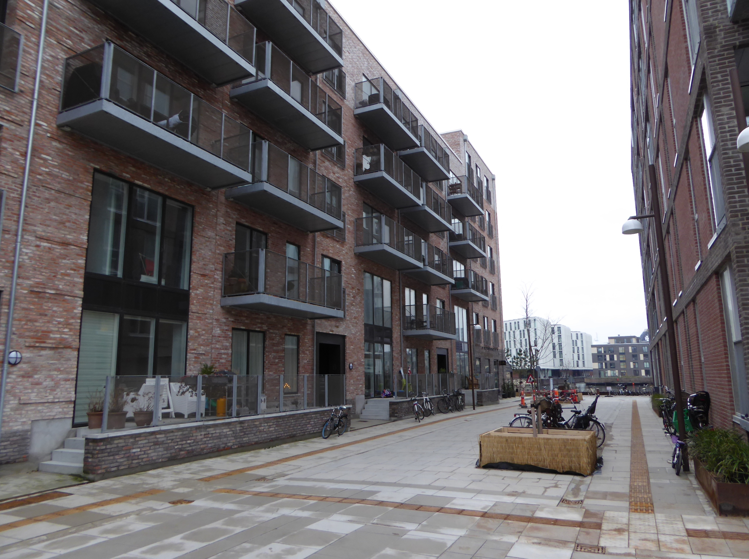 The street Bordeauxgade in Nordhavn in Copenhagen. The building at the left is the apartment building Provianthuset.